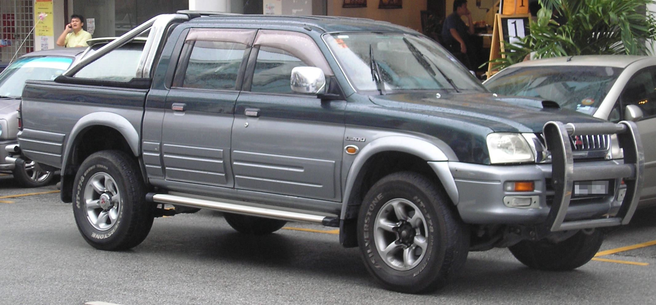 Front-side shot of a third generation Mitsubishi L200/Storm with an open bed, in Serdang, Selangor, Malaysia.